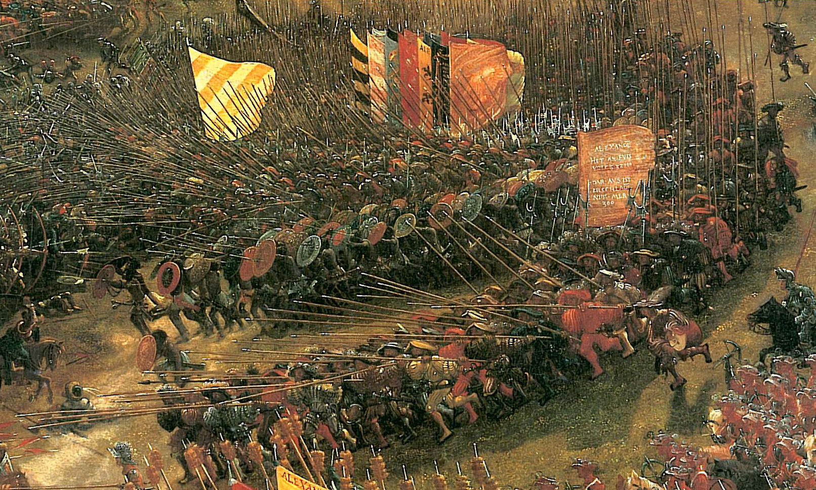 Battle of Alexander the Great against Persian King Darius